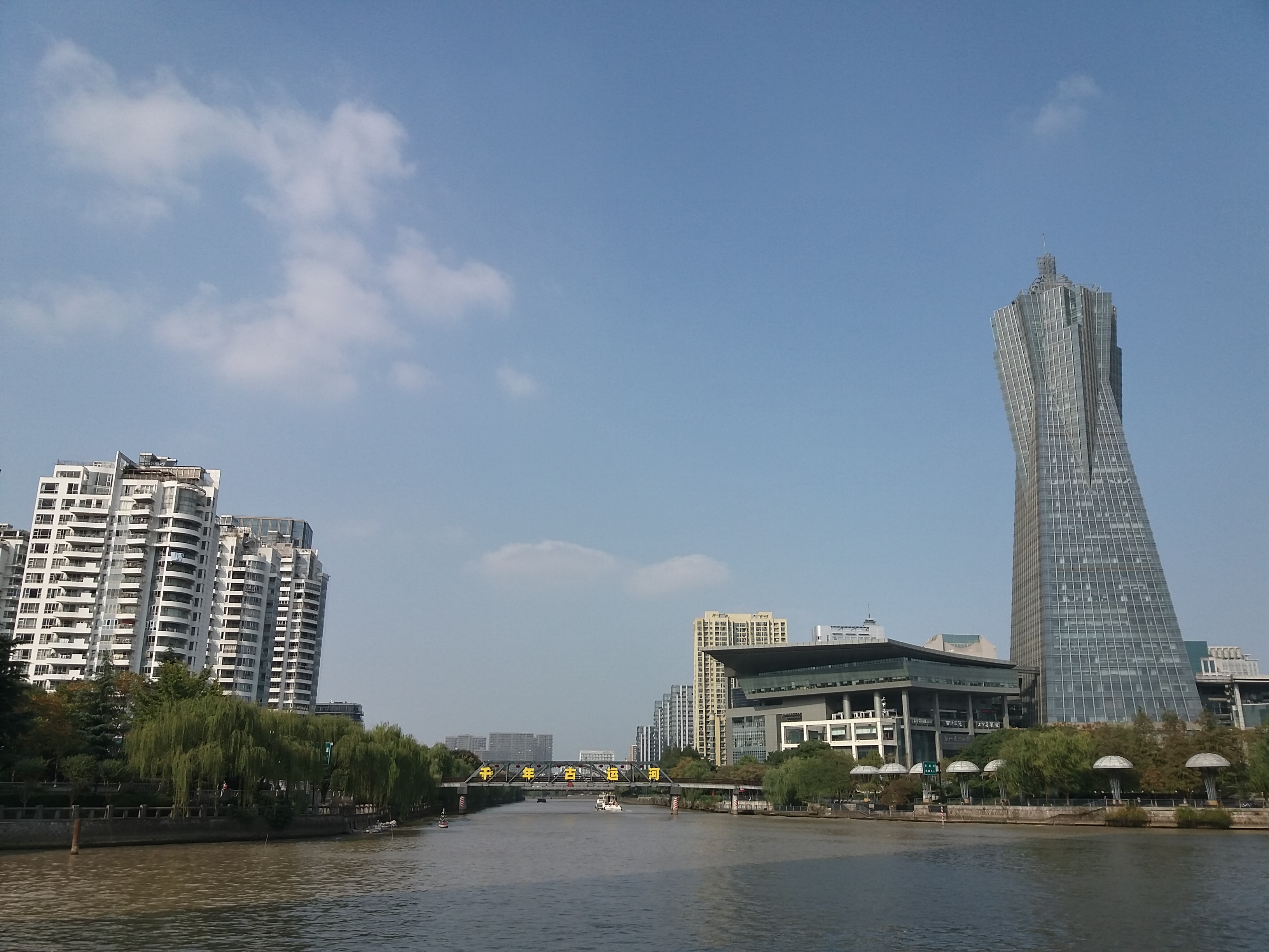 Wulinmen Wharf